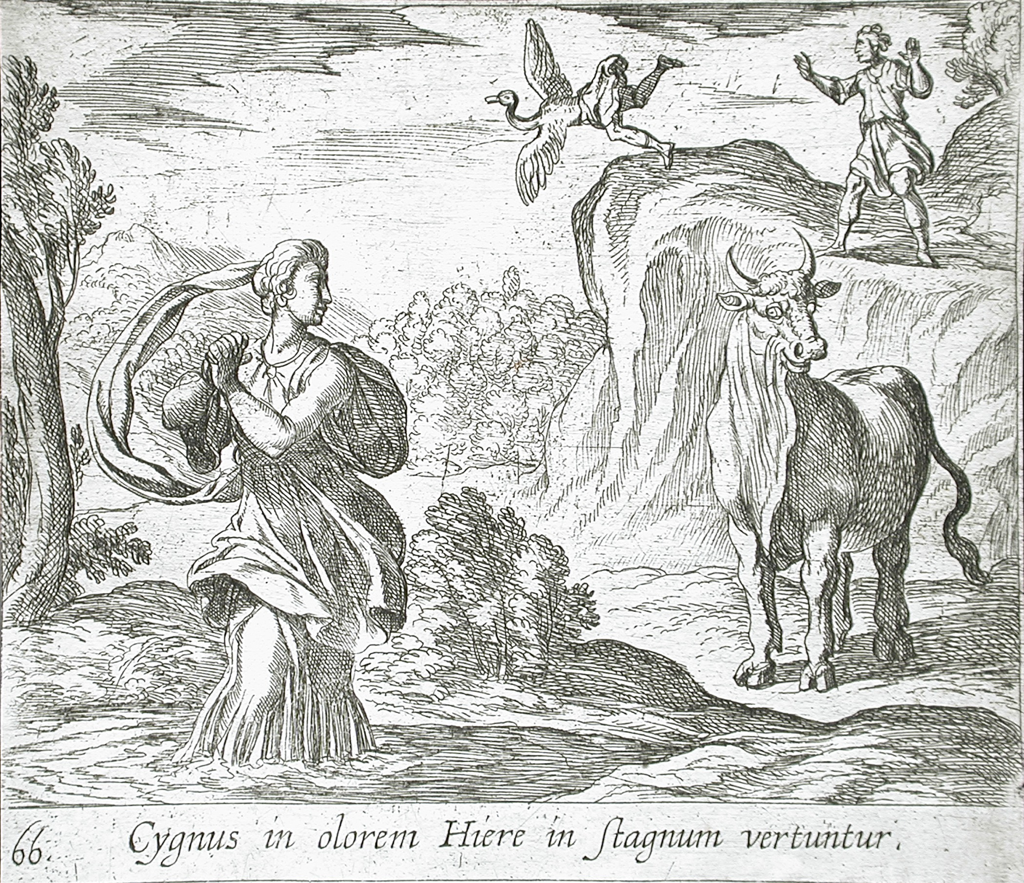 Italy, published 1606 Alternate Title: Cygnus in olorem Hiere in stagnum vertuntur Series: The Metamorphoses of Ovid, pl. 66 Edition: Second edition Prints; etchings Etching Los Angeles County Fund (65.37.149) Prints and Drawings